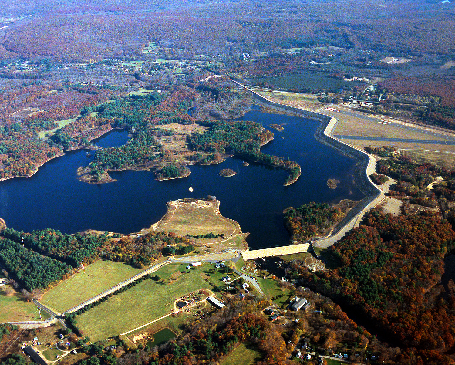 Mansfield Hollow Lake in Tolland County, Mansfield, Connecticut, USA. The U.S. Army Corps of Engineers constructed the dam as a flood control measure. It impounds the waters of the Fenton, Mount Hope, and Natchaug Rivers.